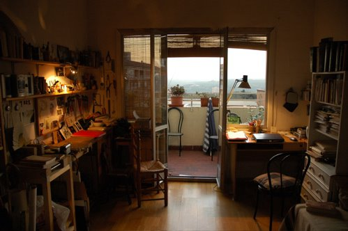 View of the studio of Tomás Segovia, Madrid 2006